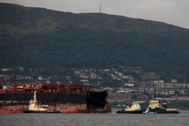 The hulk of the MSC Napoli arriving in Belfast Lough for breaking. It had been at anchor off Cloghan Point for several days. The journey along the Lough was made, with the help of four tugs and two pilots, at a speed of 2 knots.